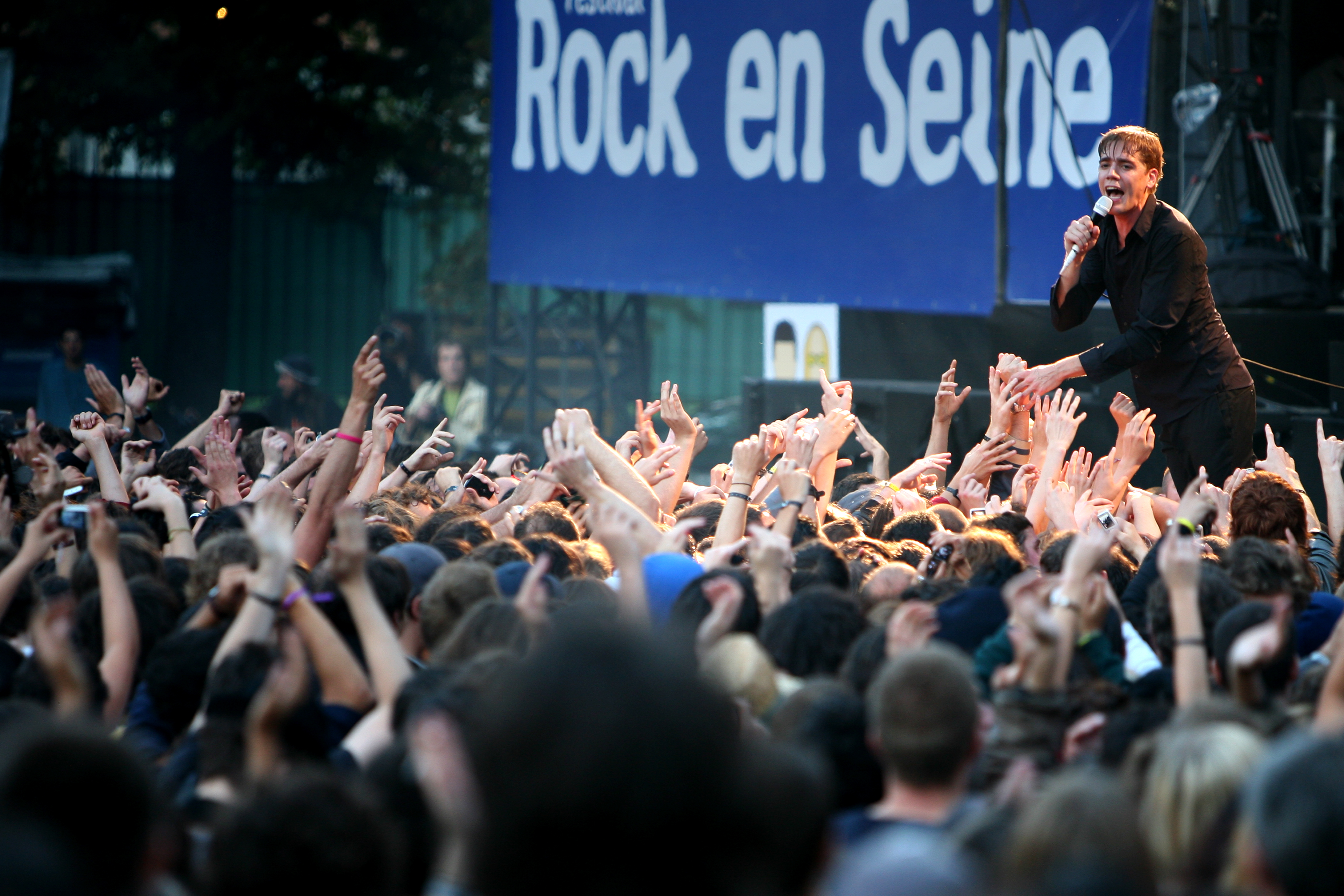 The Hives (Pelle Almqvist) at Rock en Seine, August 2007